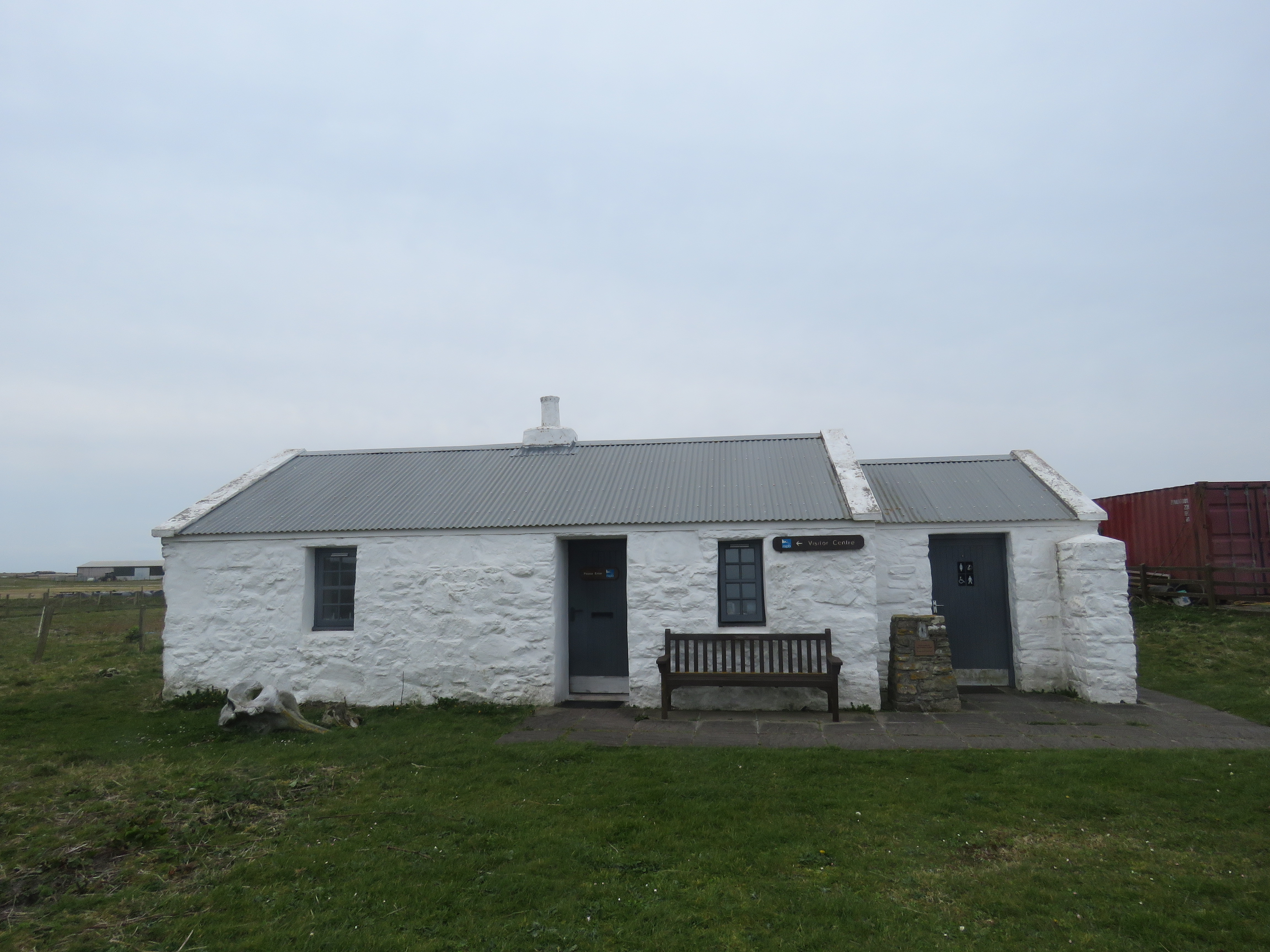 visitor centre, rspb balranald, north uist, outer hebrides